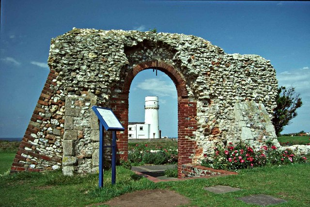 Remains of St Edmund's Chapel and Lighthouse, Hunstanton. The doorway of the ruined St Edmund's Chapel provides a window with which to view the lighthouse which is now a private dwelling.